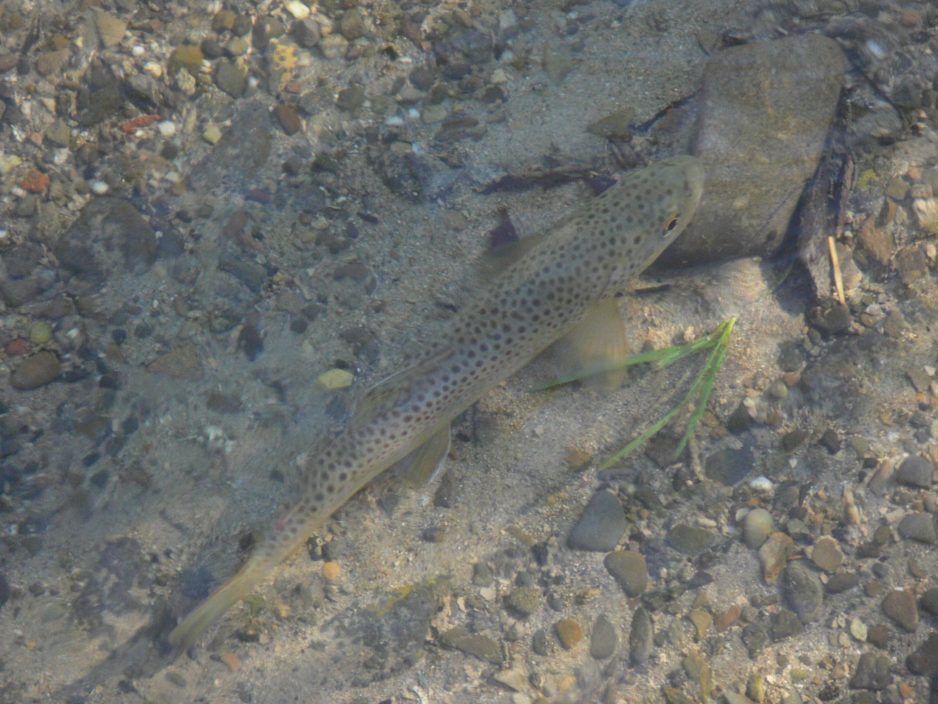 Bachforelle